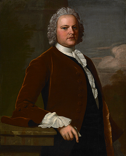 Portrait of Boston merchant Ralph Inman, by Robert Feke, 1748